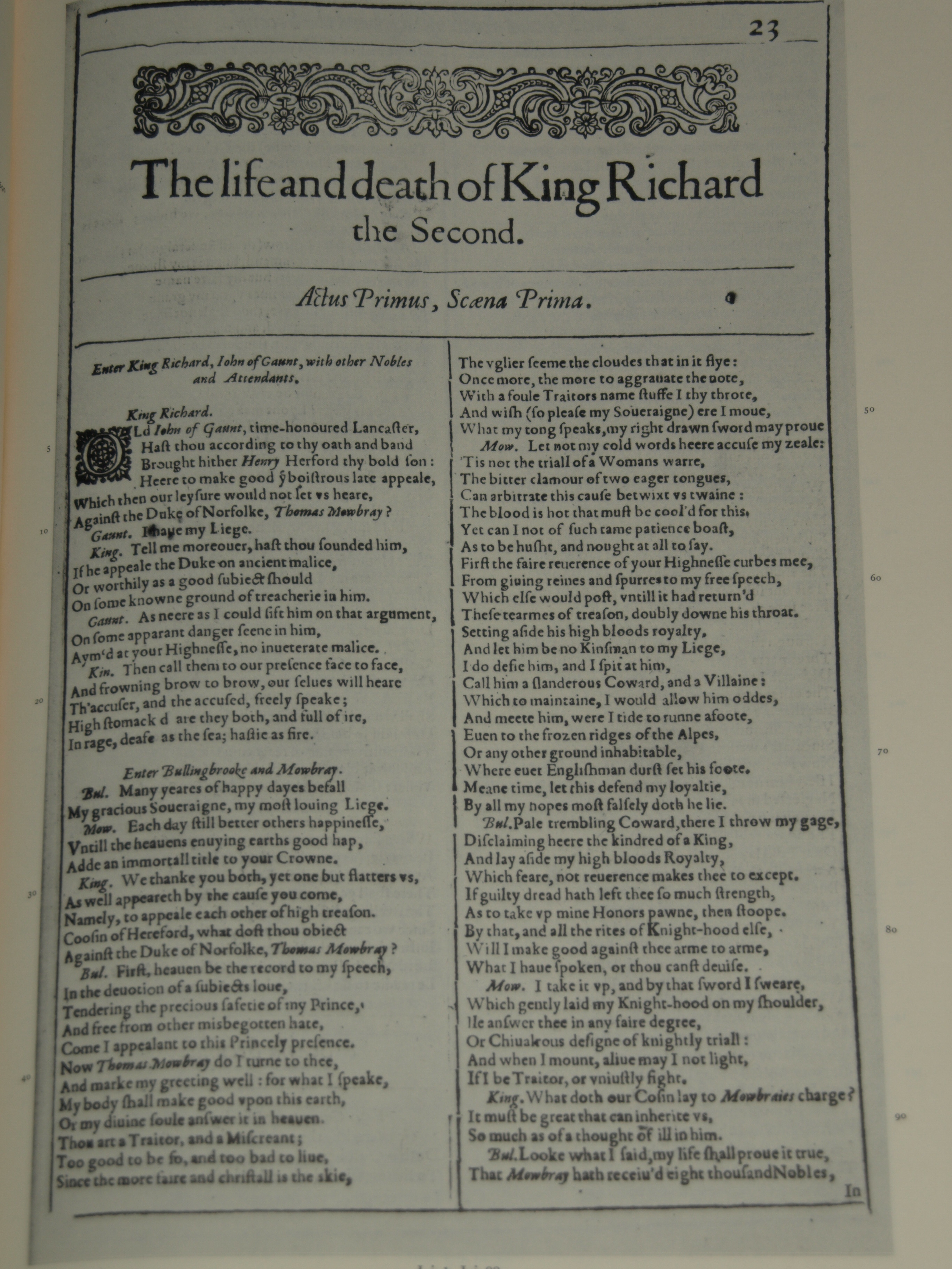 Photo of the first page of Richard the Second from a facsimile edition of the First Folio of Shakespeare's plays, published in 1623